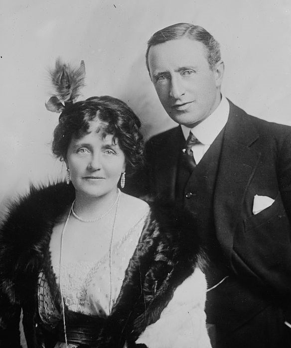 English actress Eva Moore (1870–1955) with her husband, English actor and playwright Henry Vernon Esmond (1869–1922)